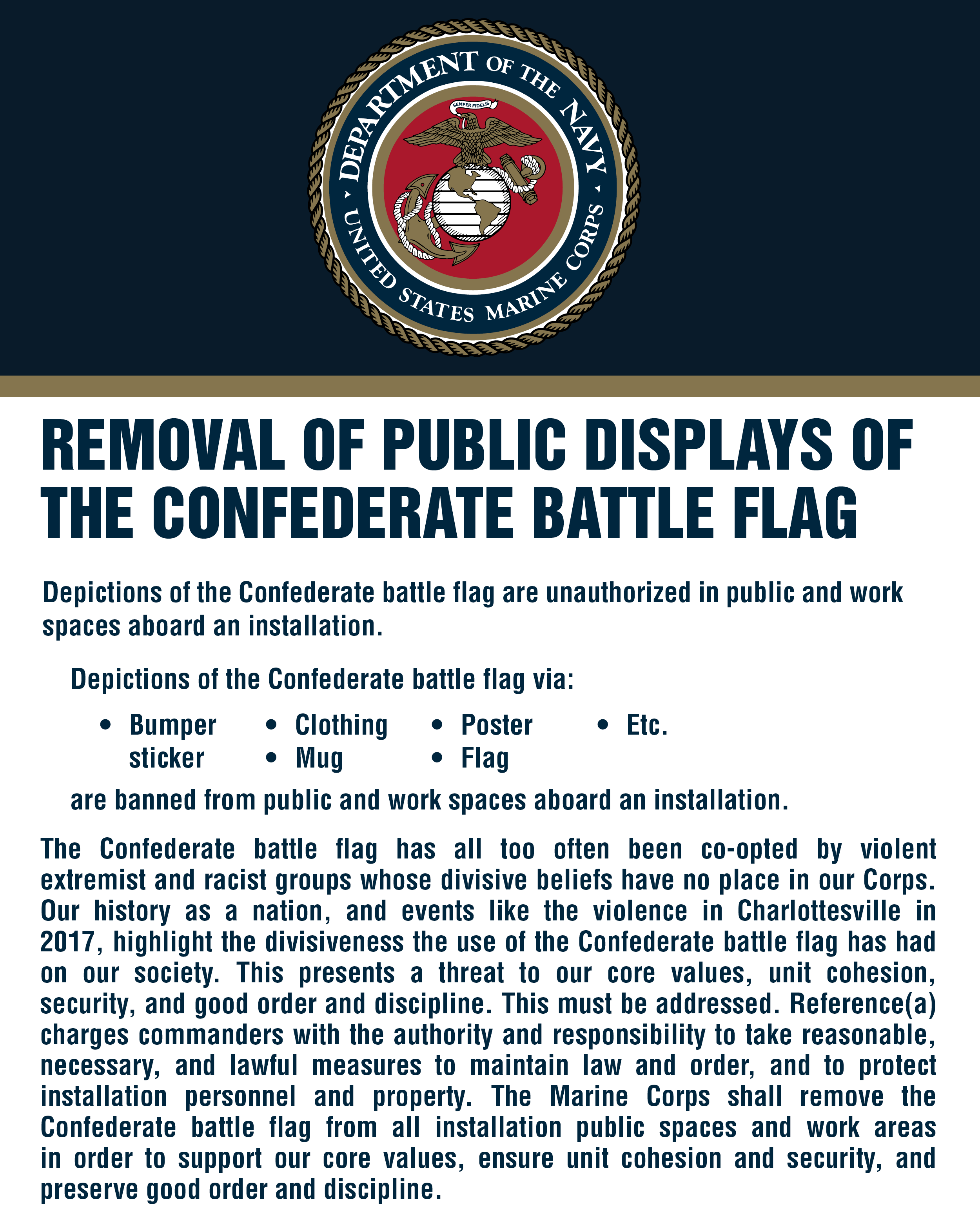 Twitter notification image by U.S. Marine Corps for Marine Administrative Message (MARADMIN) 331/20 directing Marine Corps commanders to identify, and remove the display of the Confederate Battle Flag or its depiction within work places, common-access areas, and public areas on their installations